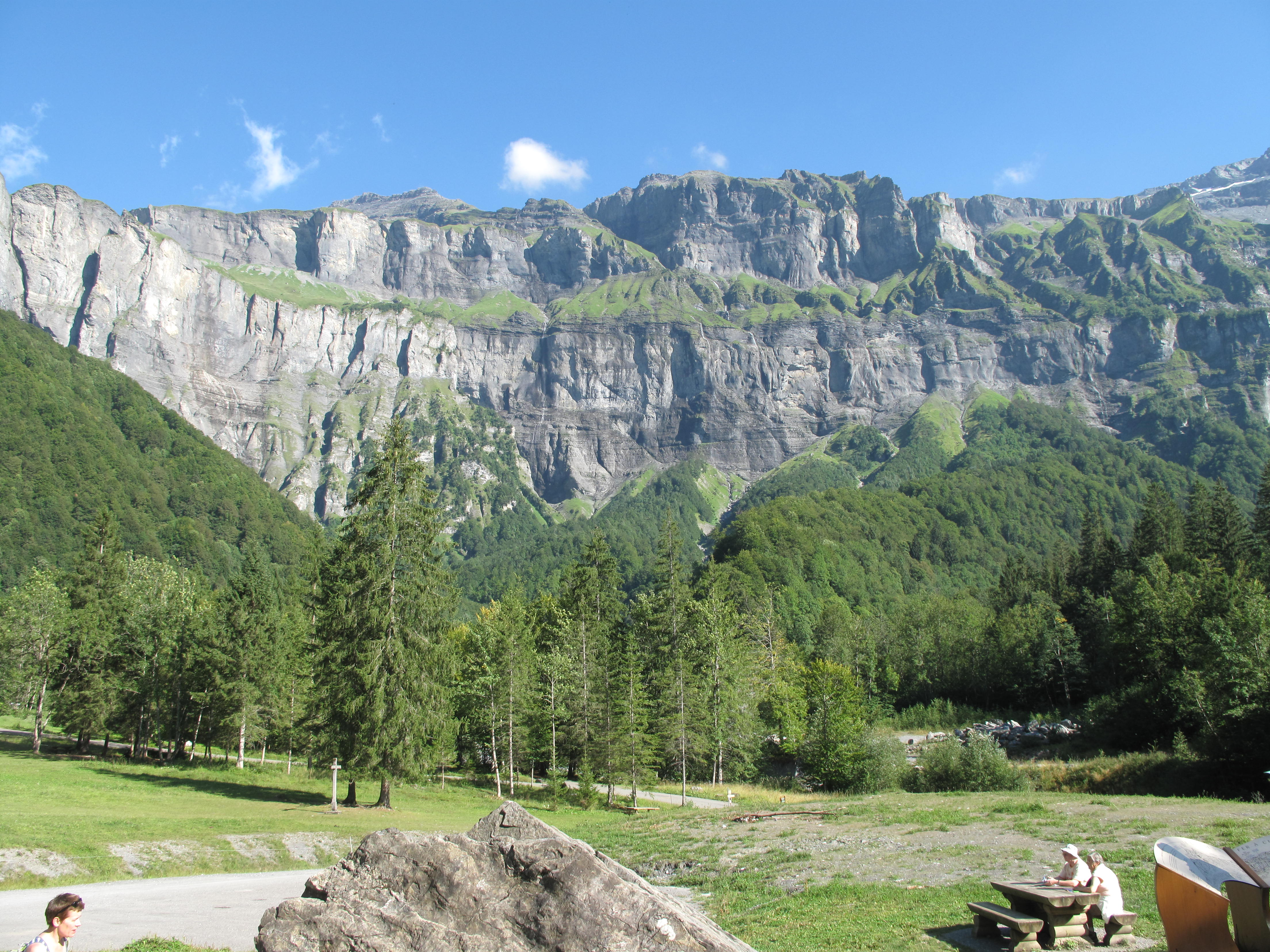 The cirque du Fer-à-Cheval (Haute-Savoie, France).